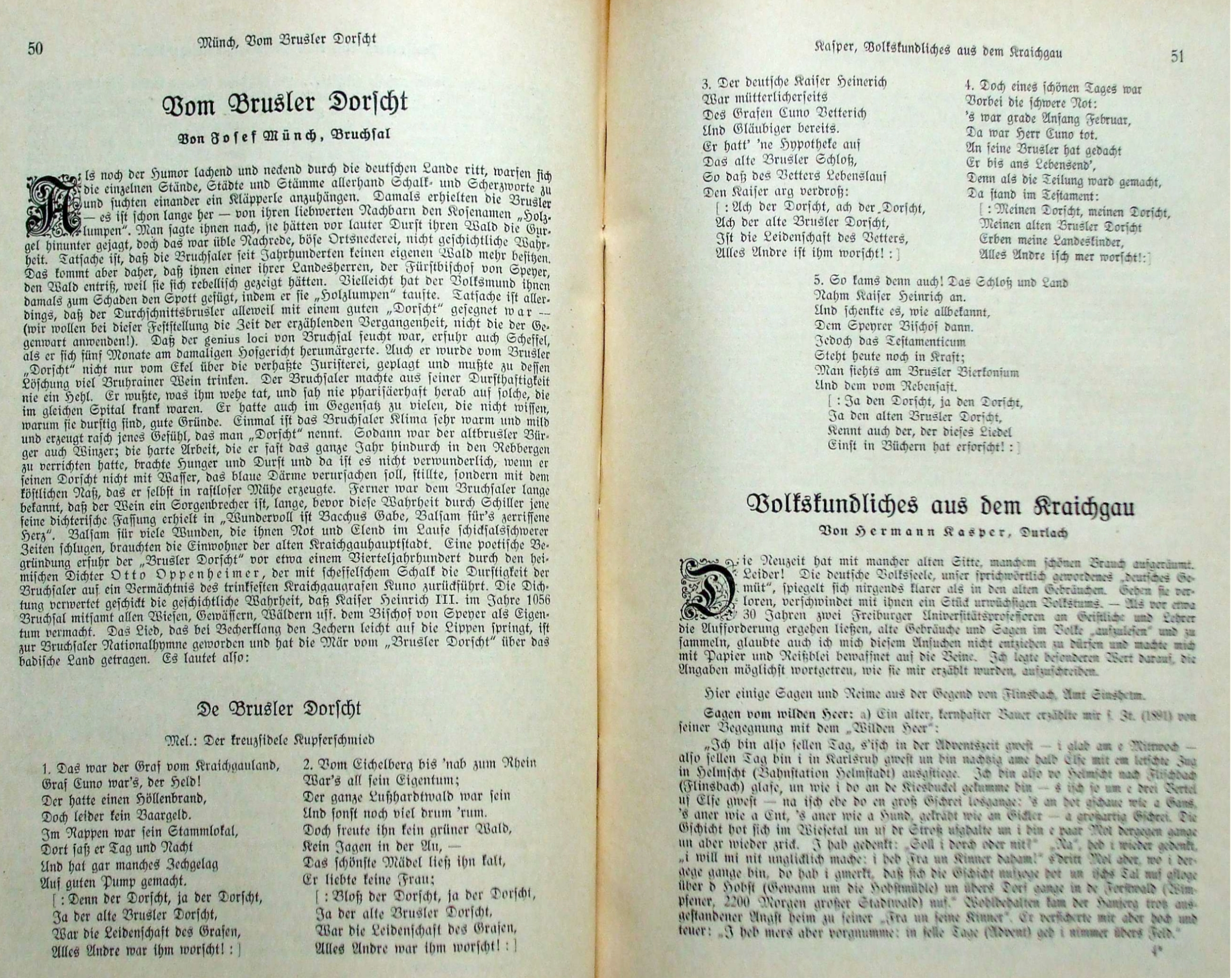 thirst in Bruchsal